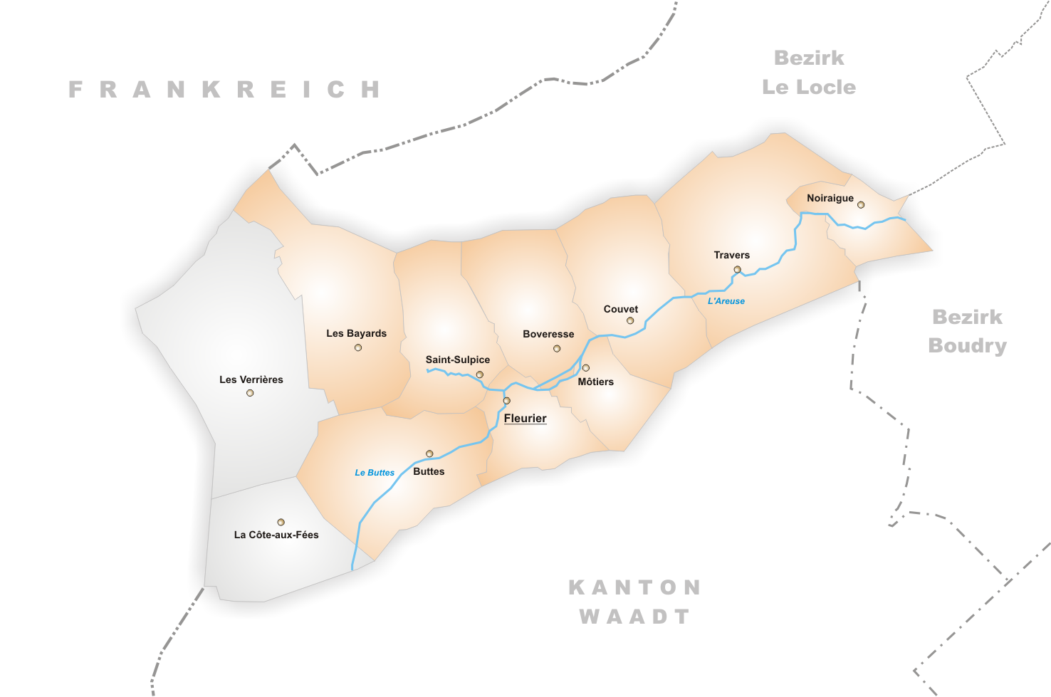 Municipalities of District Val-de-Travers until 2008